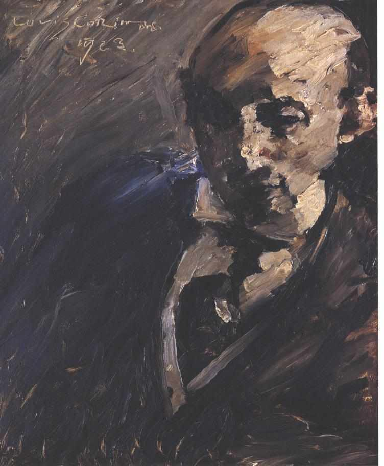 Portrait Dr. Alfred Kuhn